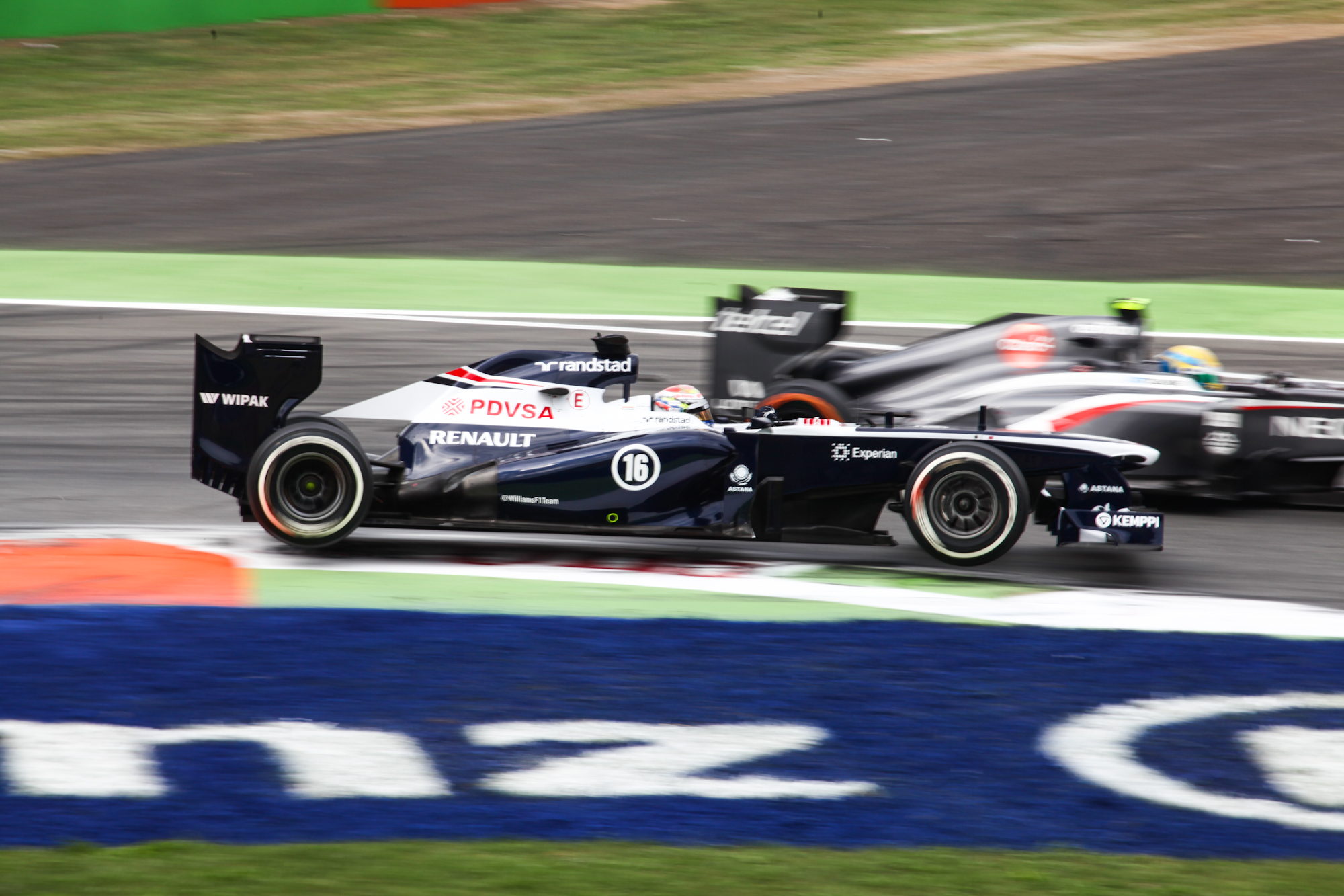 Pastor Maldonado (Williams)